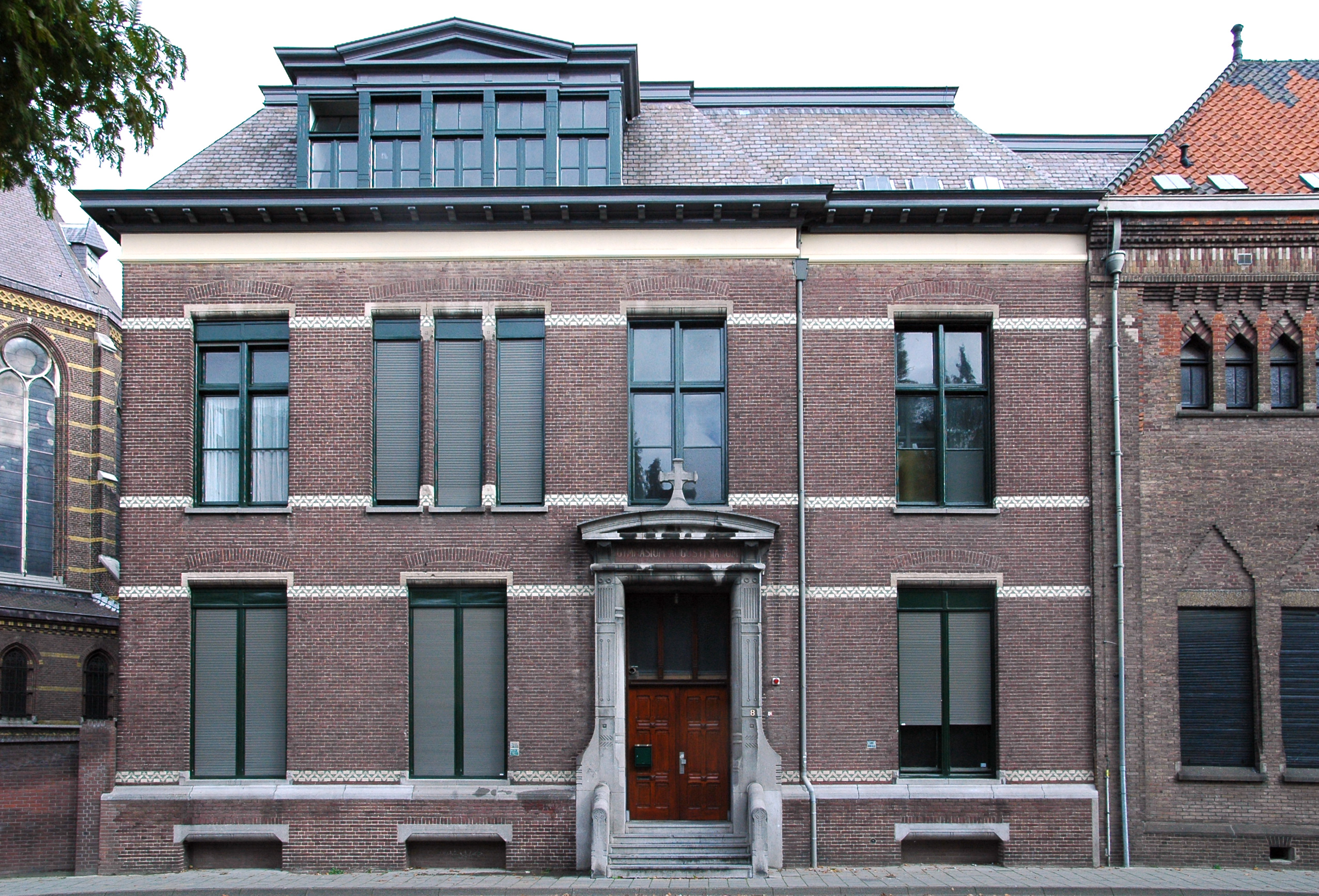 Building at address Kanaalstraat 8, Eindhoven, The Netherlands